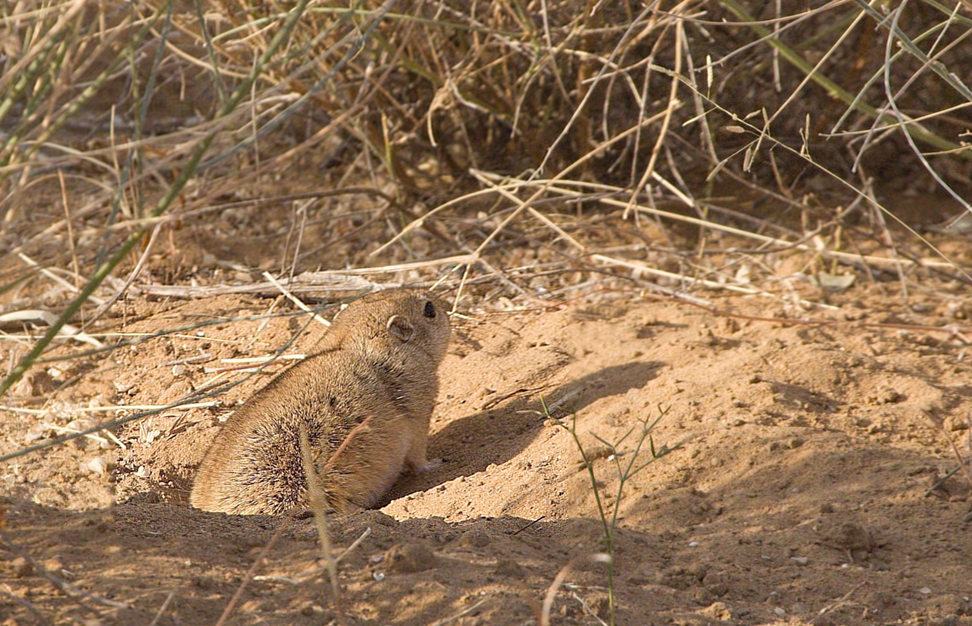 Desert Jird are ground dwelling found in the desert and barren lands with firm soil